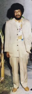 من أعمال الفنان احمد الخوجلي